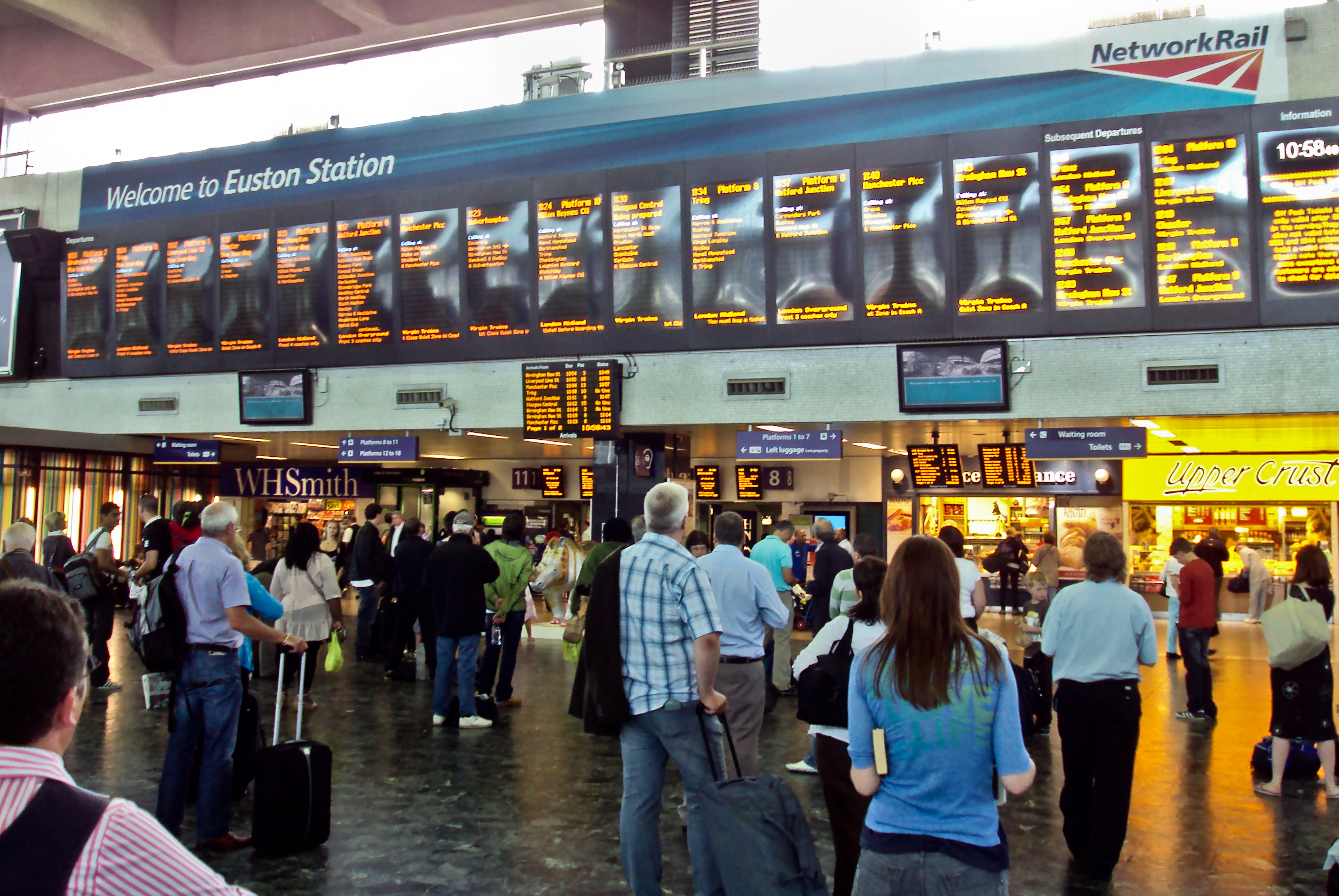 Departures board at Euston railway station, London.